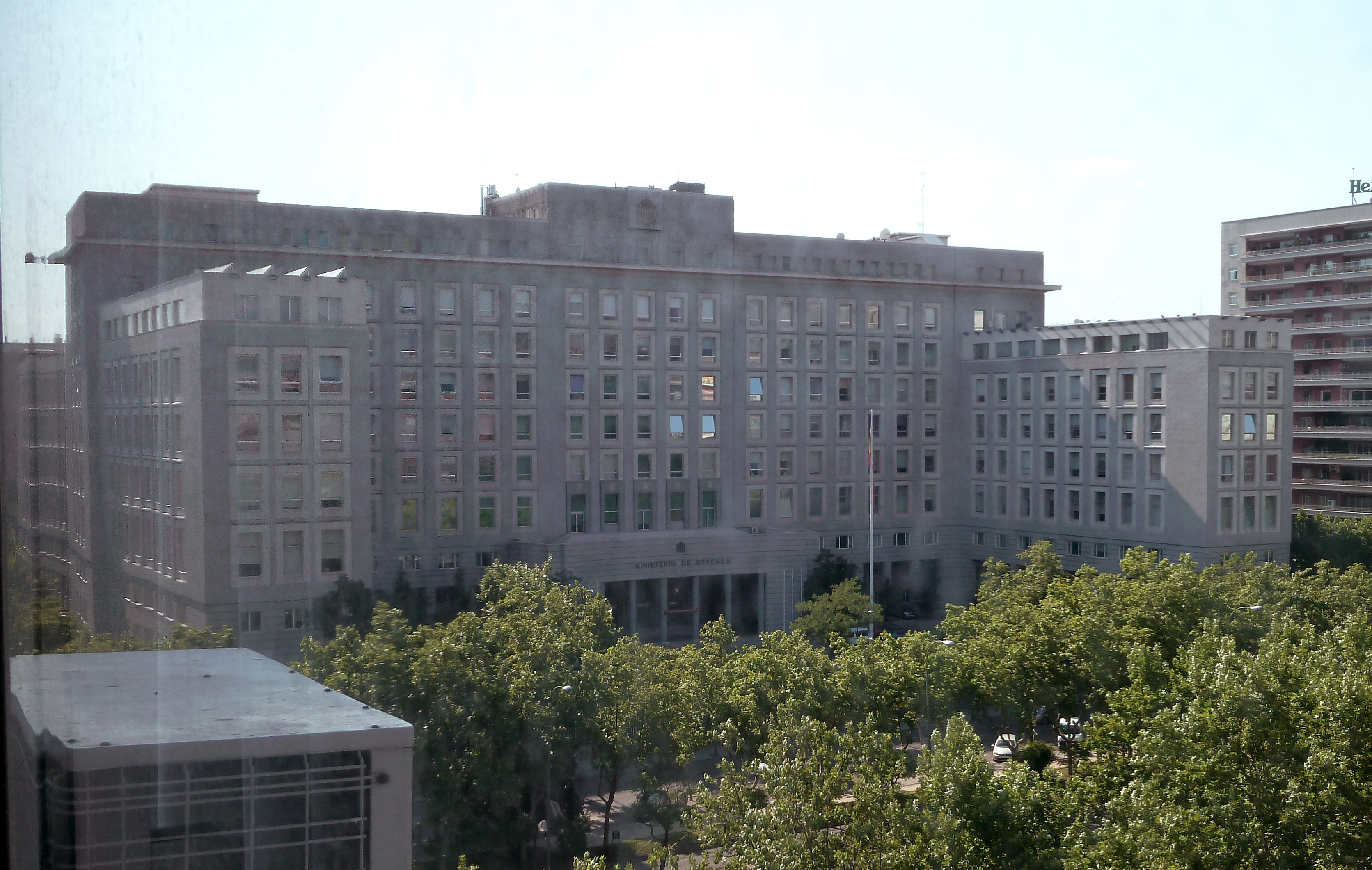 Headquarters of the Spanish Ministry of Defence, at 109 Paseo de la Castellana (an avenue) in Tetuán district in Madrid.